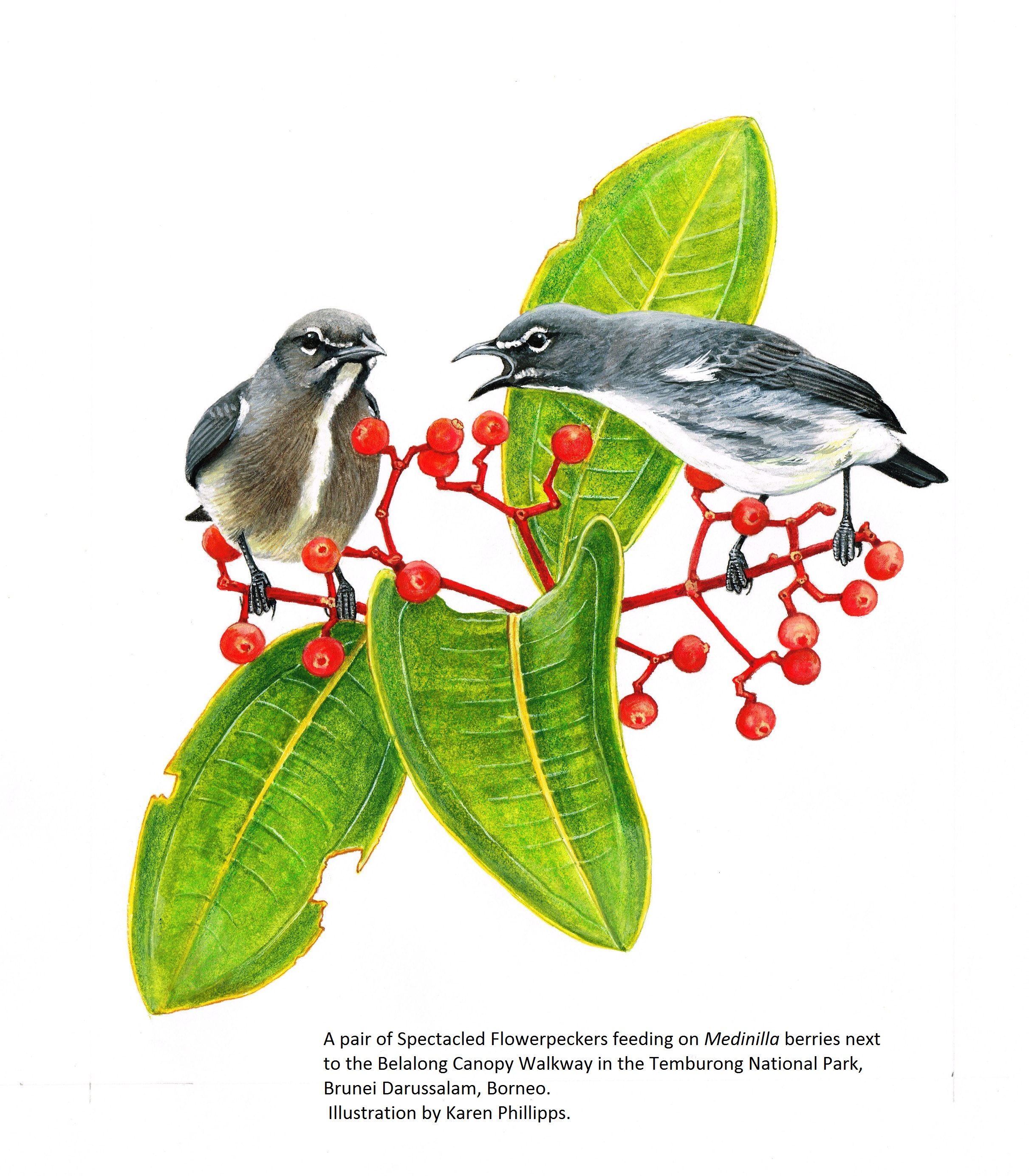 A pair of Spectacled Flowerpeckers feeding on Medinilla berries next to the Belalong Canopy Walkway, in the Temburong National Park, Brunei Darussalam, Borneo.